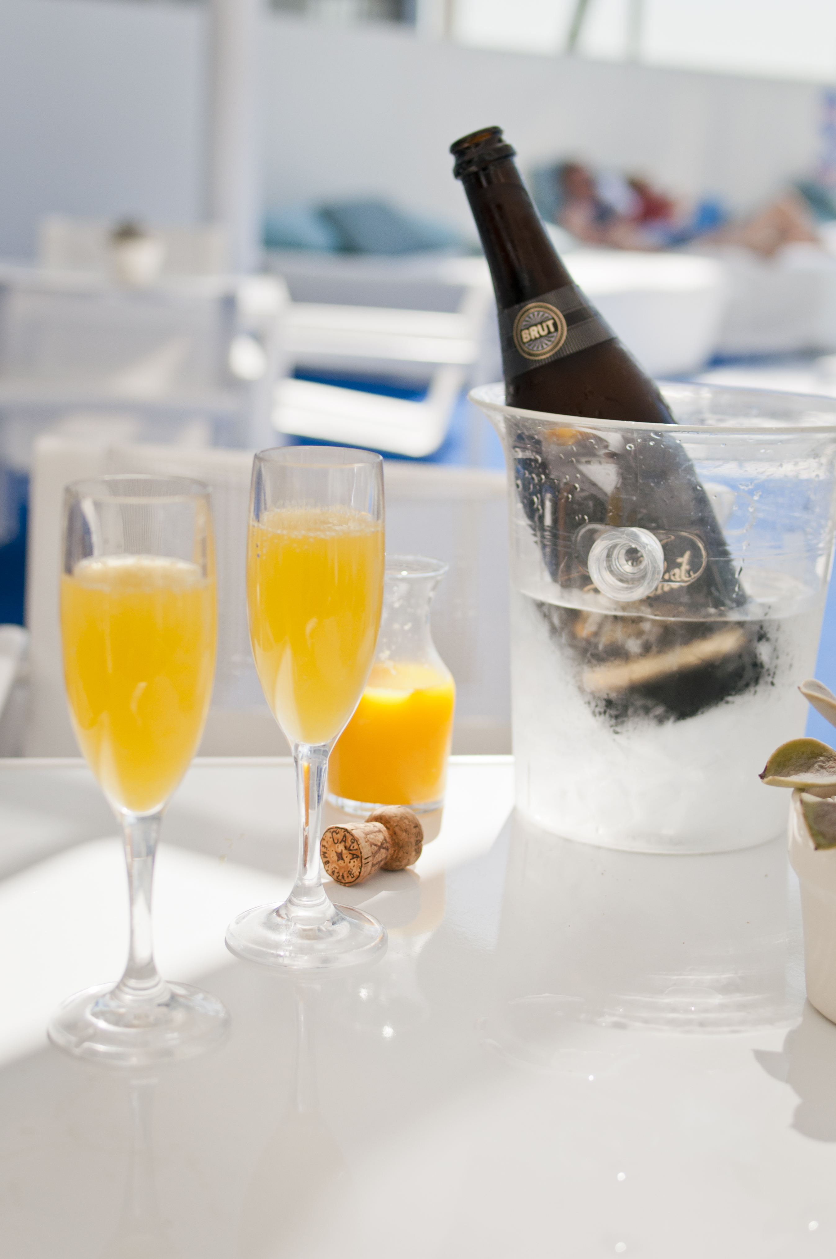 Sparkling wine "champagne" cocktail made from Spanish Cava from Freixenet.